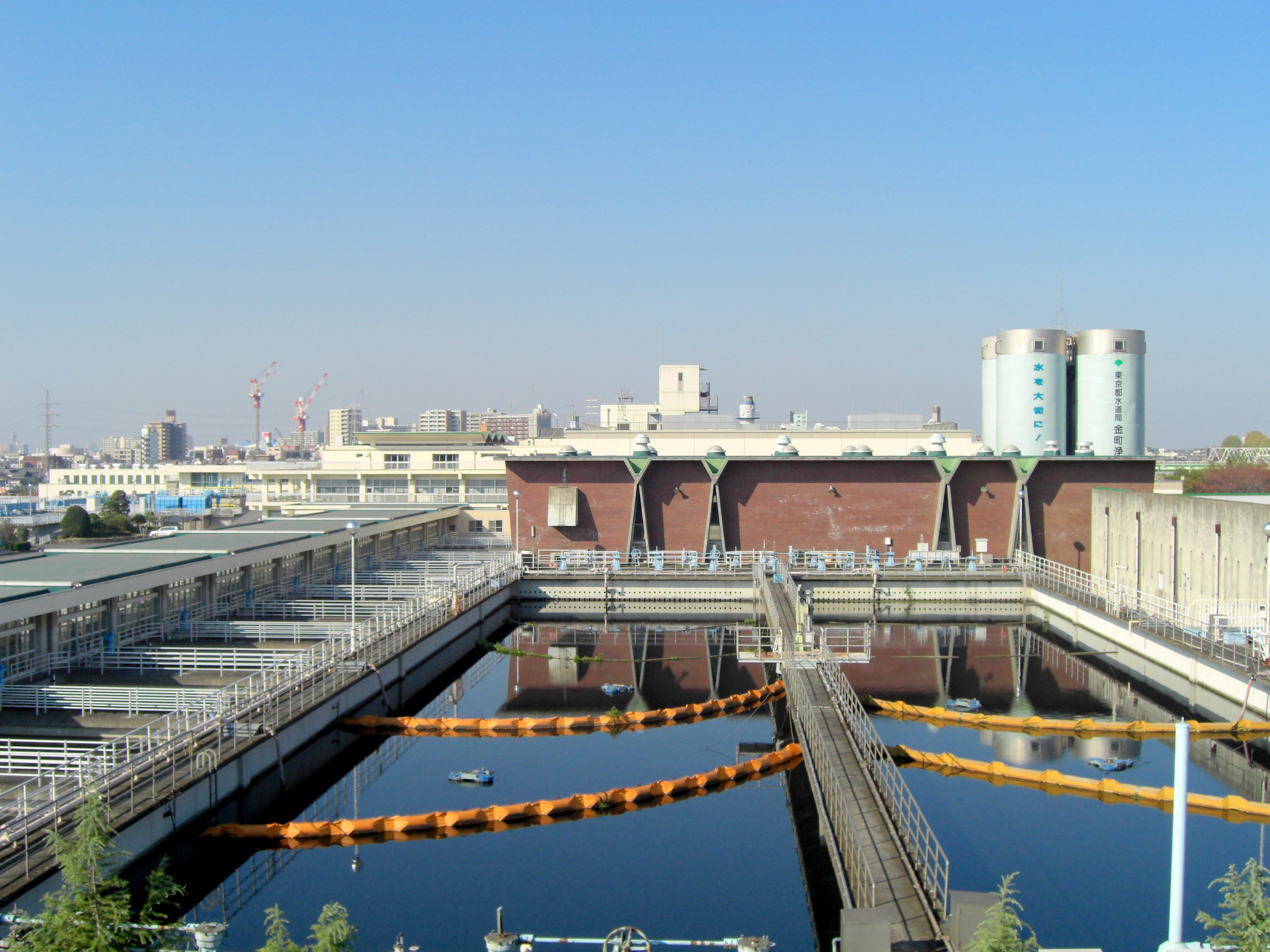 kanamachi water purification plant